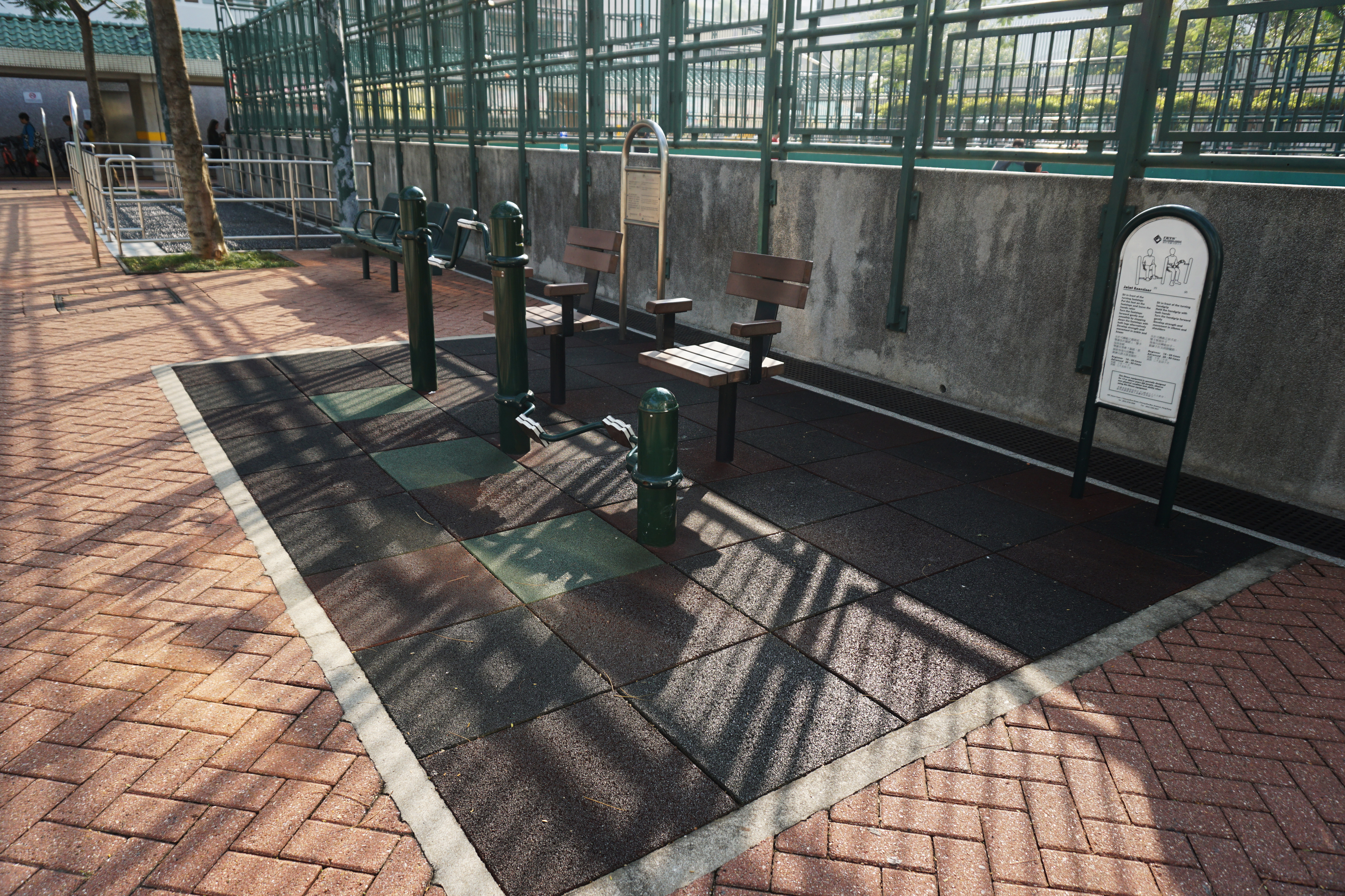 Tin Yuet Estate in Tin Shui Wai, Hong Kong.